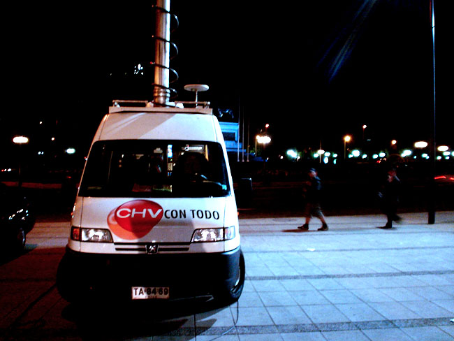 The satellite van of the network (Chilevisión), transmitting live from Baquedano Square (aka Italia square) to the world.